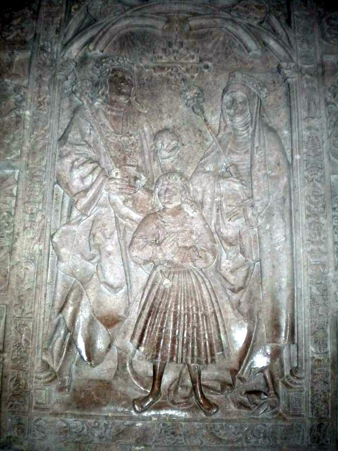 Contemporary wall sculpture of King John II Hans of Sweden, also King of Denmark and Norway, Queen Christina and their son FrancisPlace: Church of St. Canute’s, Odense, Denmark